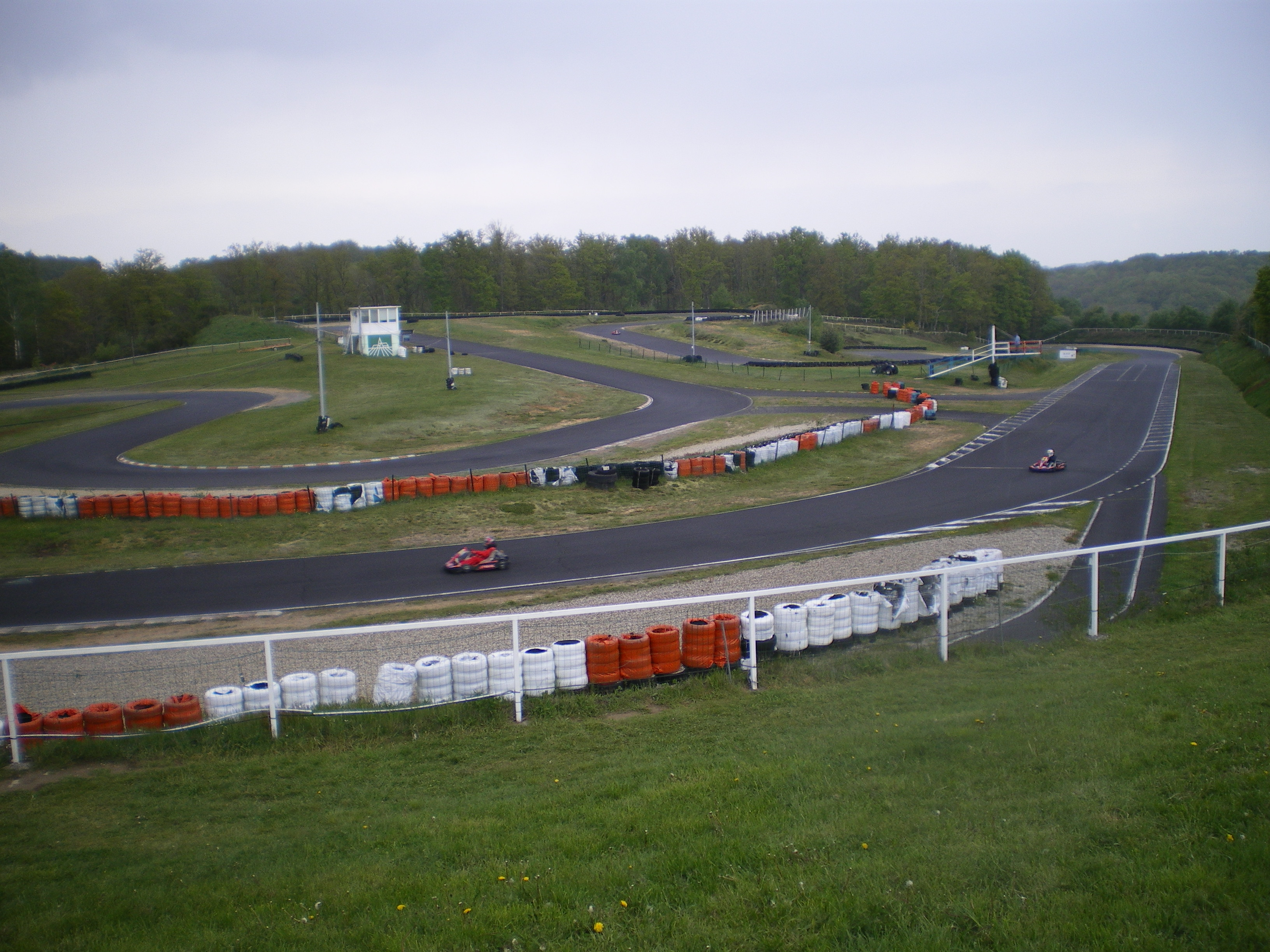 Karting racing circuit, Pers, Cantal, France